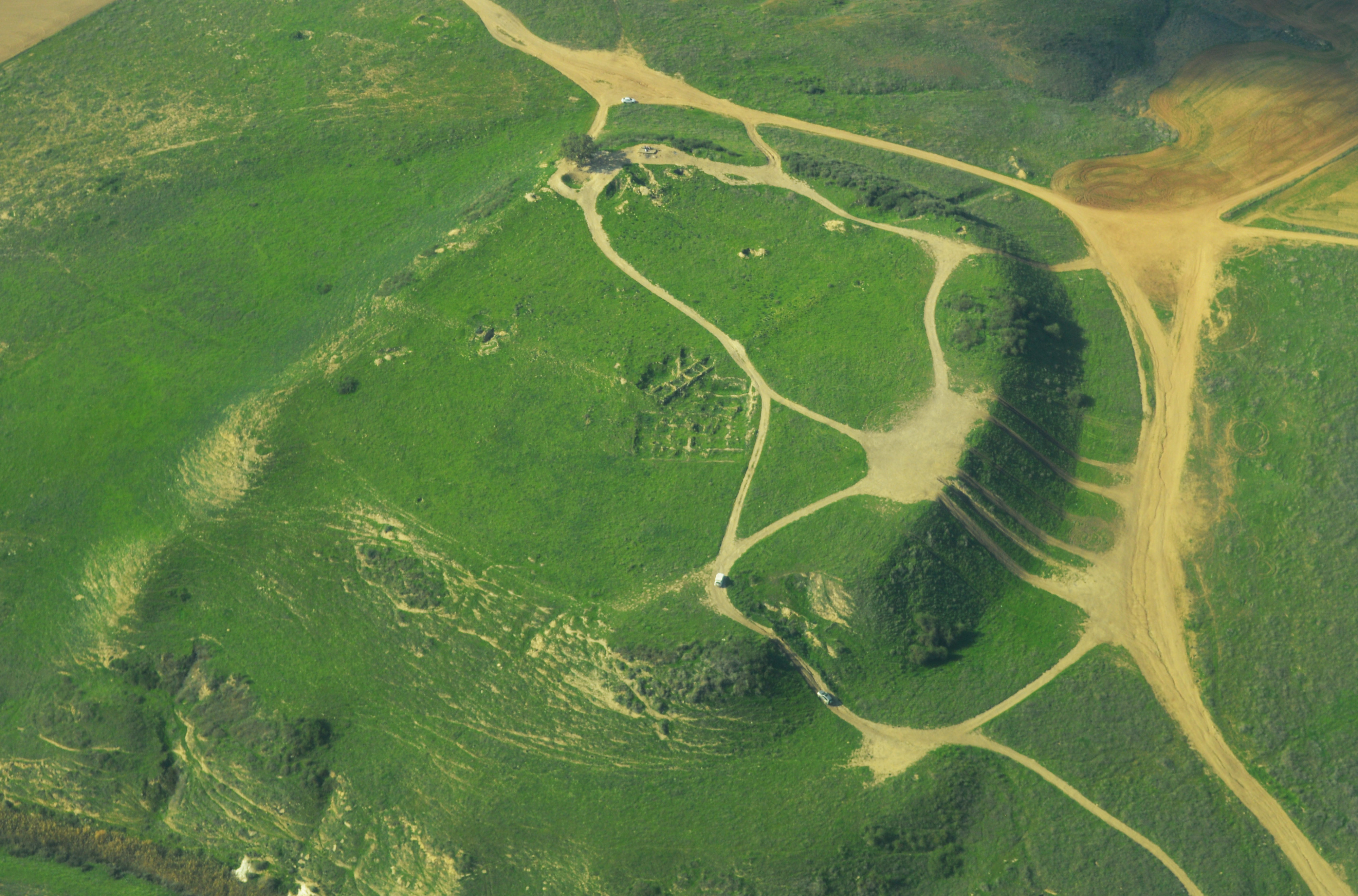 Tel Nagila Aerial View